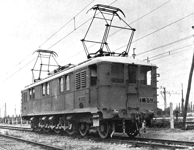 Electric locomotive Midi 2C2 E 3101, 1500 V DC.